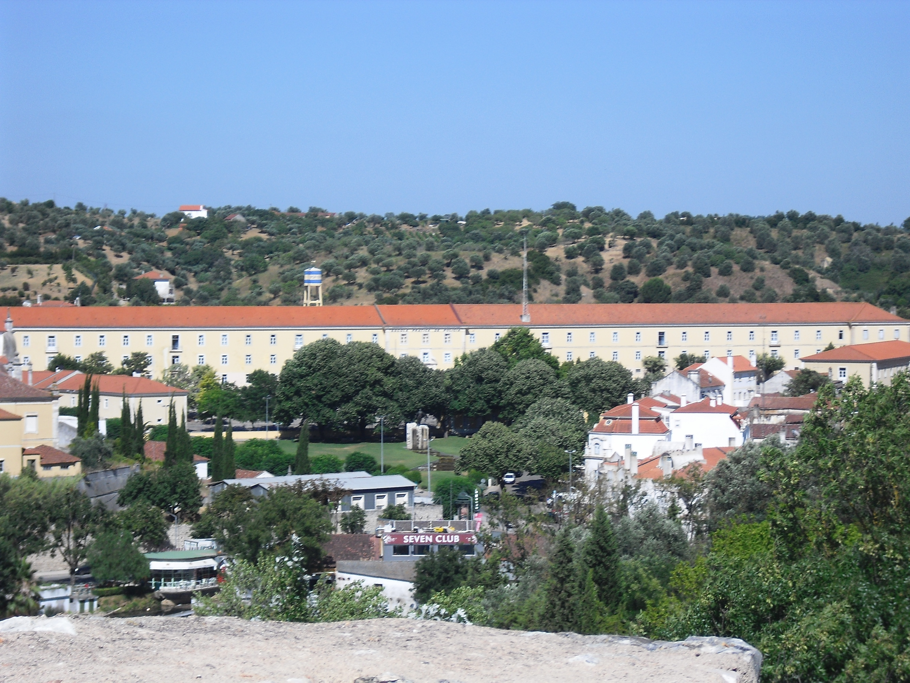 This file was uploaded for Wiki Loves Monuments in Portugal with the unique identifier 97027425.